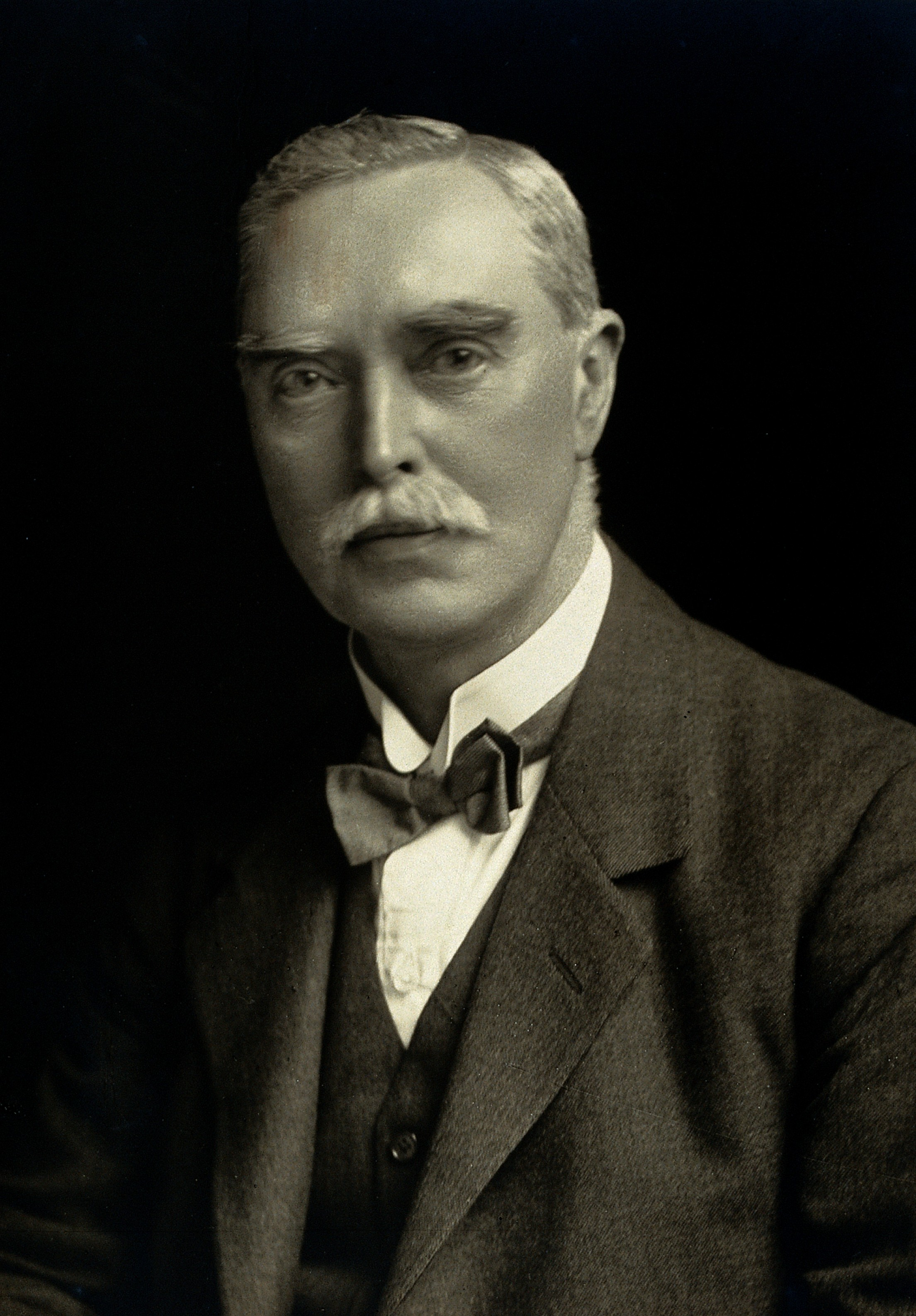 Magnus Maclean. Photograph. Iconographic Collections Keywords: portrait photographs